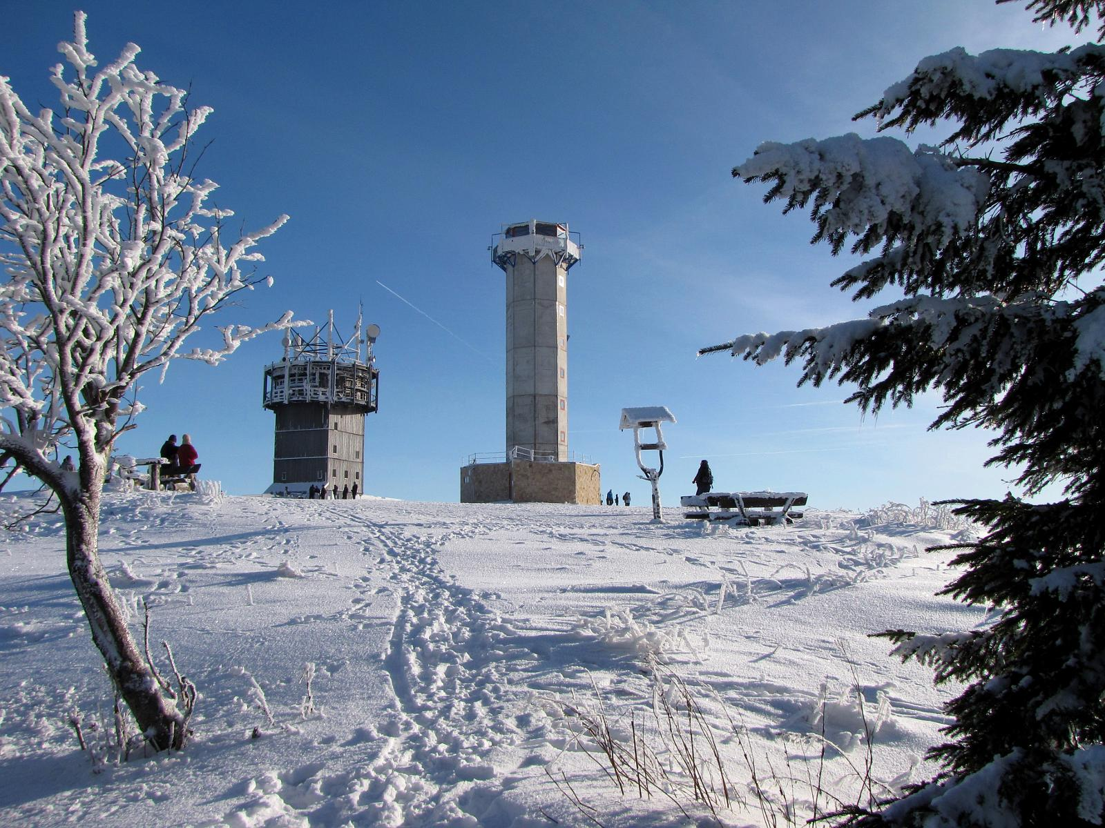 Germany / Thüringer Wald / mountain Schneekopf: view to Oberhof